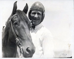 This photo is in the public domain, published in 1919